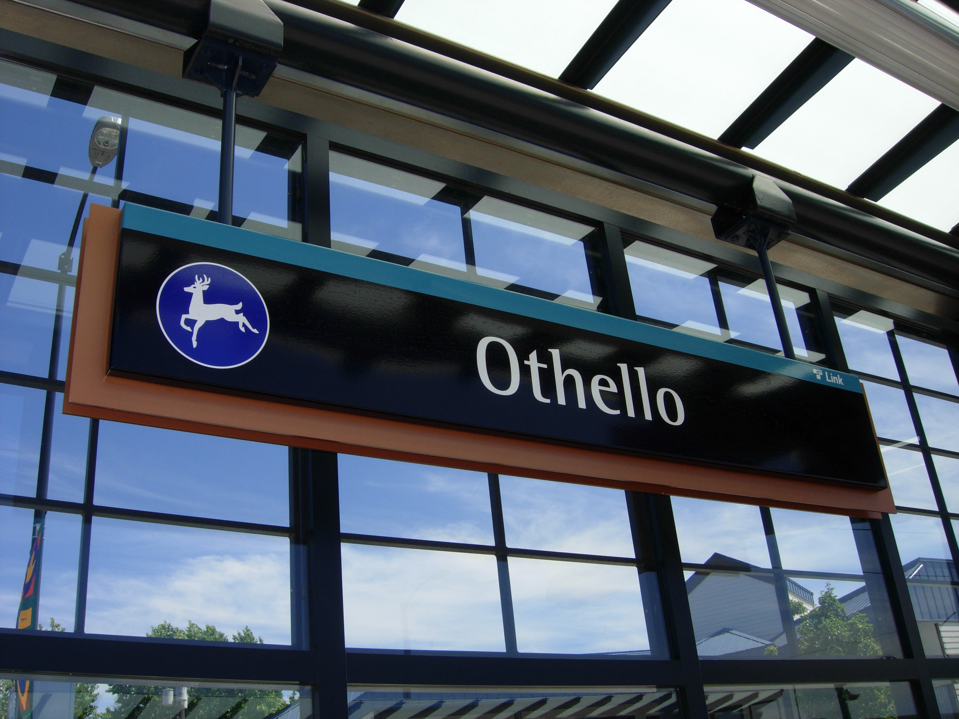 Sign at the Othello Station. I took this photo myself 7-18-2009.